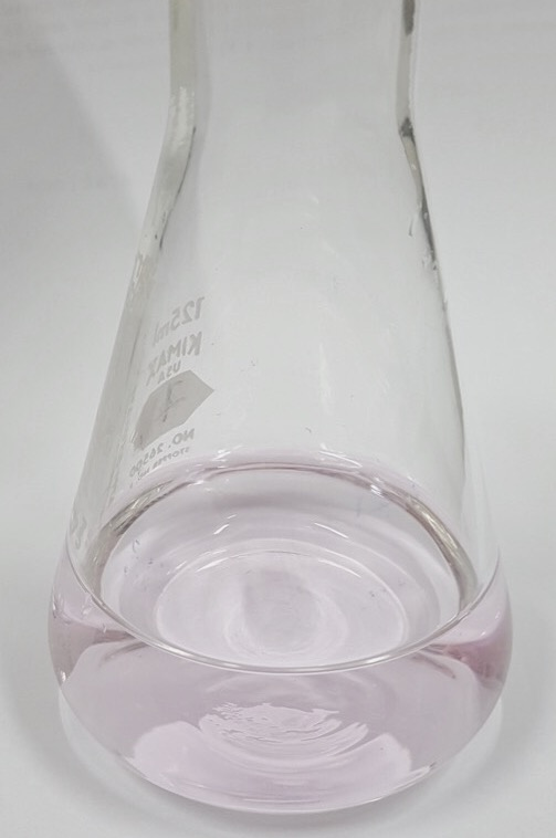 An indicitor commonly used in Acid and Base Titration